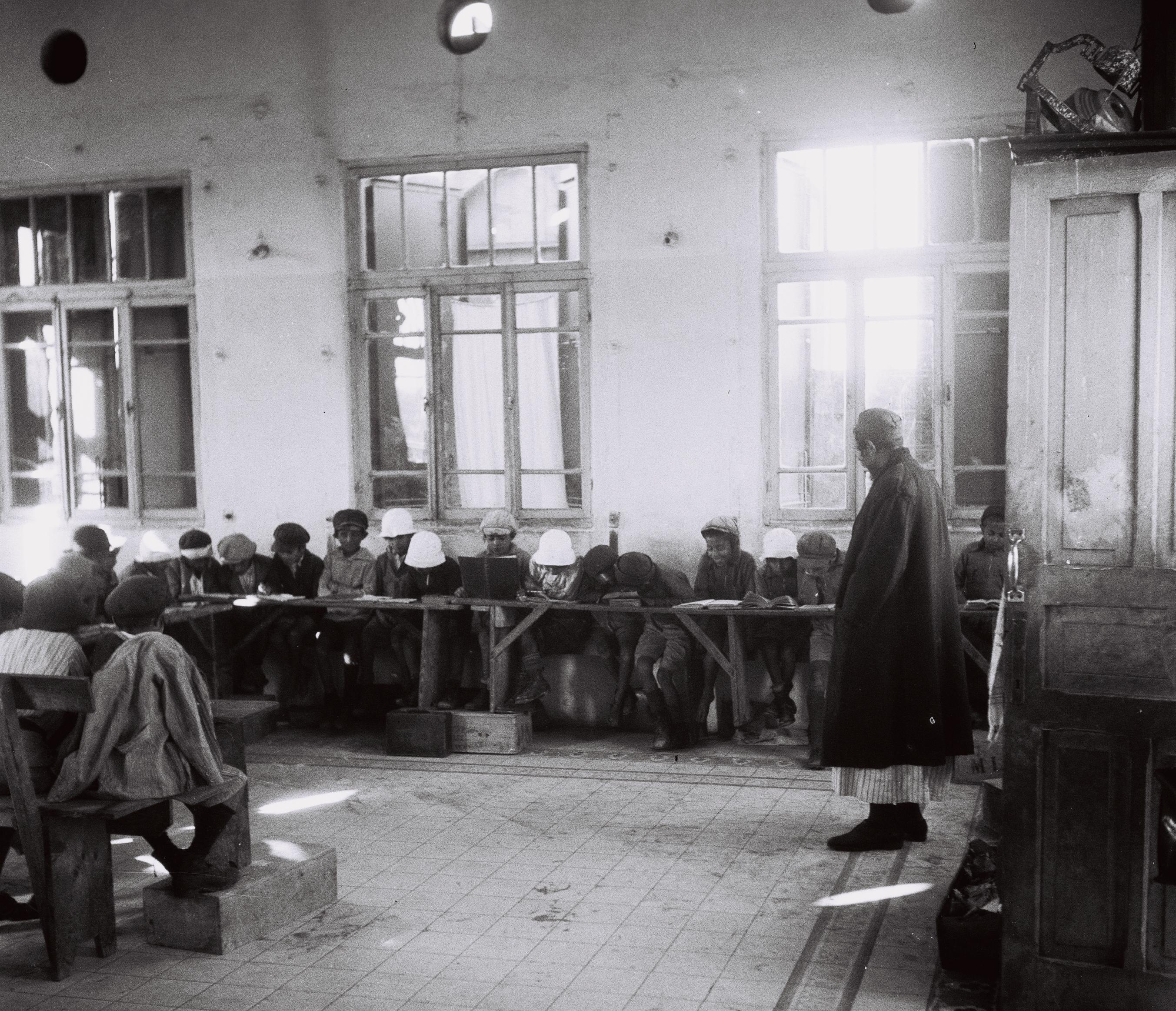 THE MELAMED (TEACHER) AND HIS PUPILS IN THE HEDER AT KFAR MARMOREK. לימודי תורה ב"חדר" בכפר מרמורק.